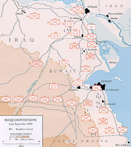 Iraqi Dispositions in Kuwait, Late September 1990